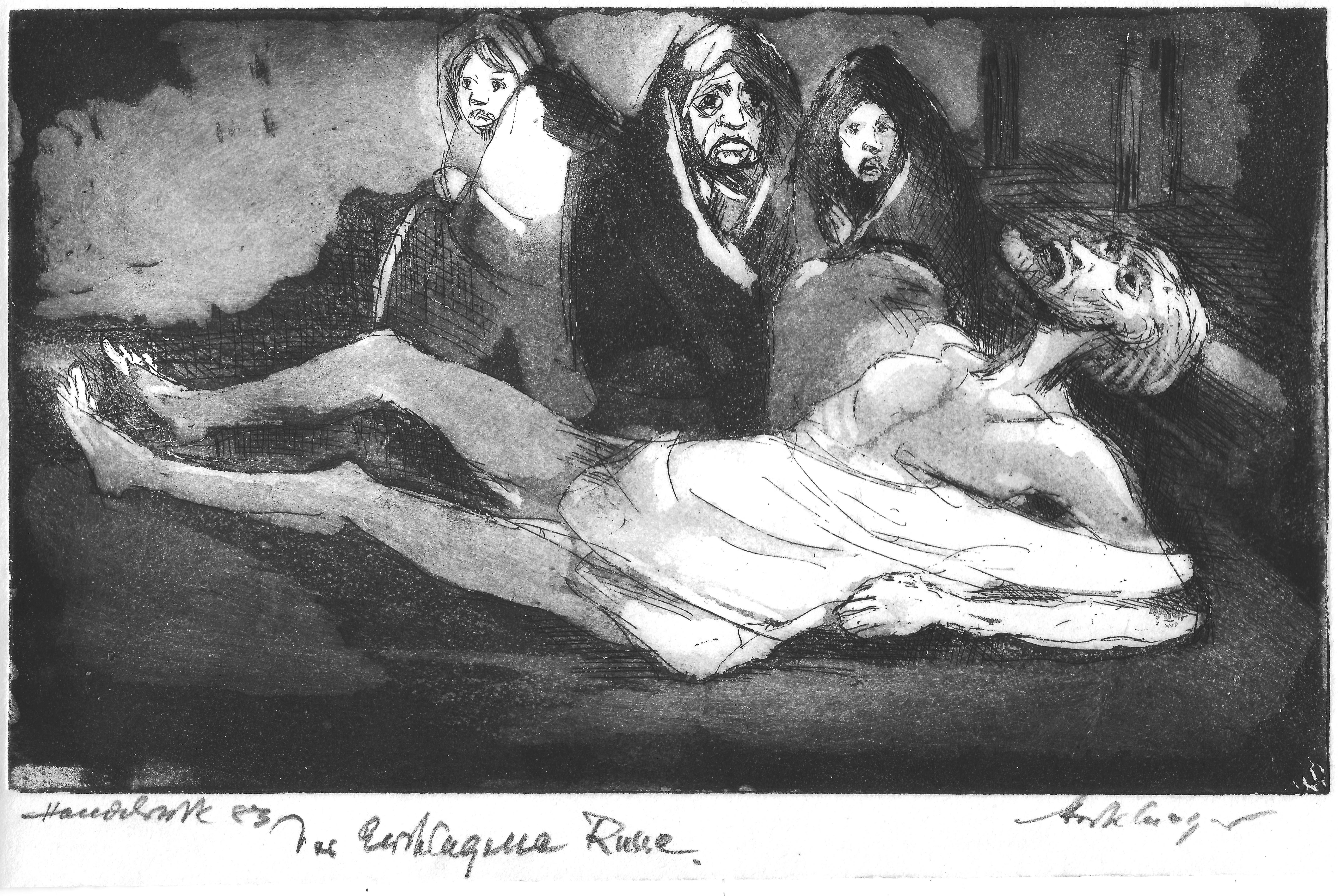 Lithograph (Hand printed), 1983. This image is based on memories from 1941 when Georg Alfred Stockburger served in Russia as a surgeon for the German armed Forces.